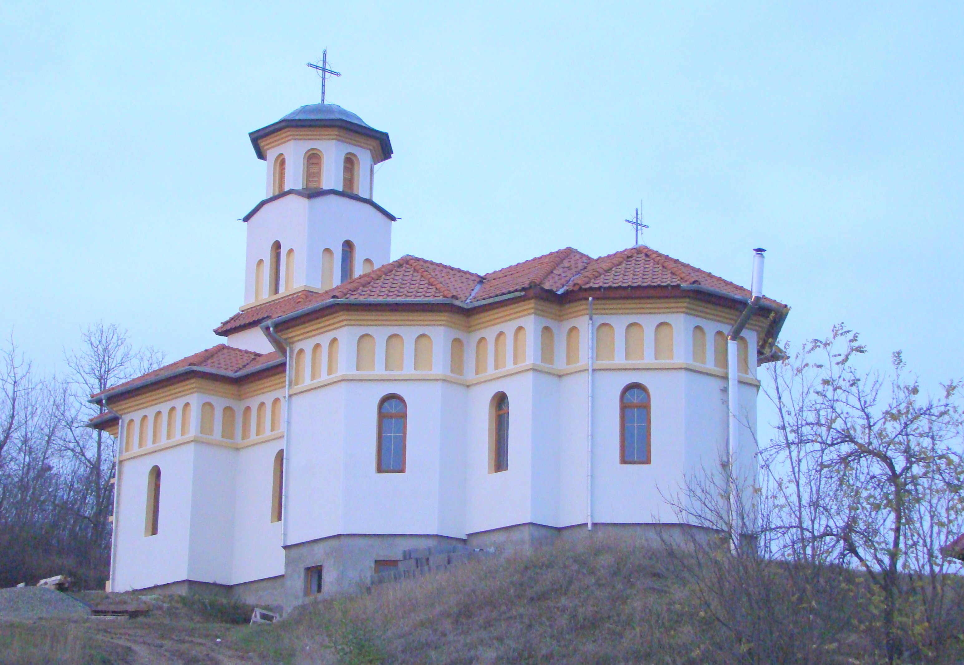 Orthodox church in Oroiu, Mureș county, Romania